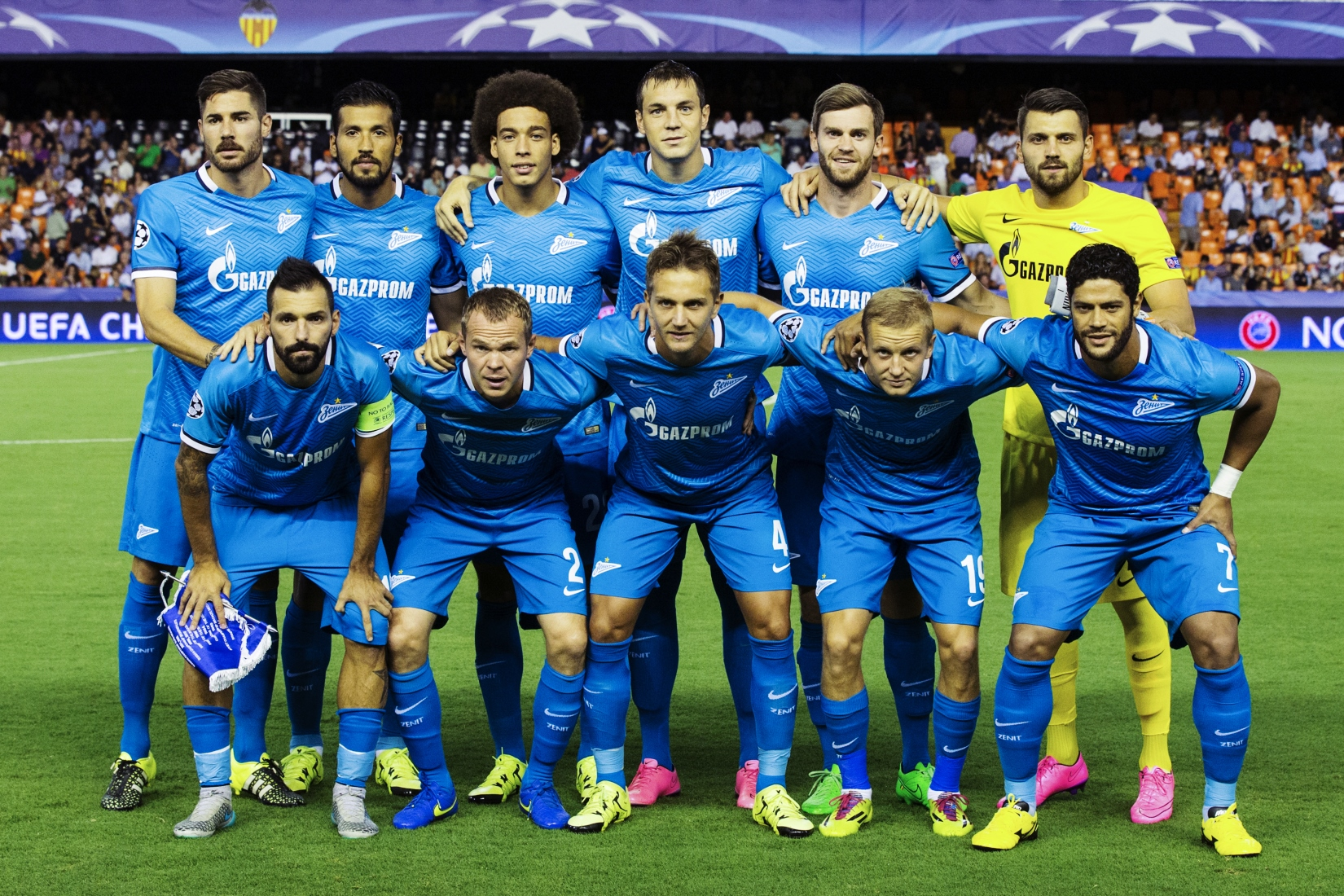 16.09.2015.FC Zenit Saint Petersburg